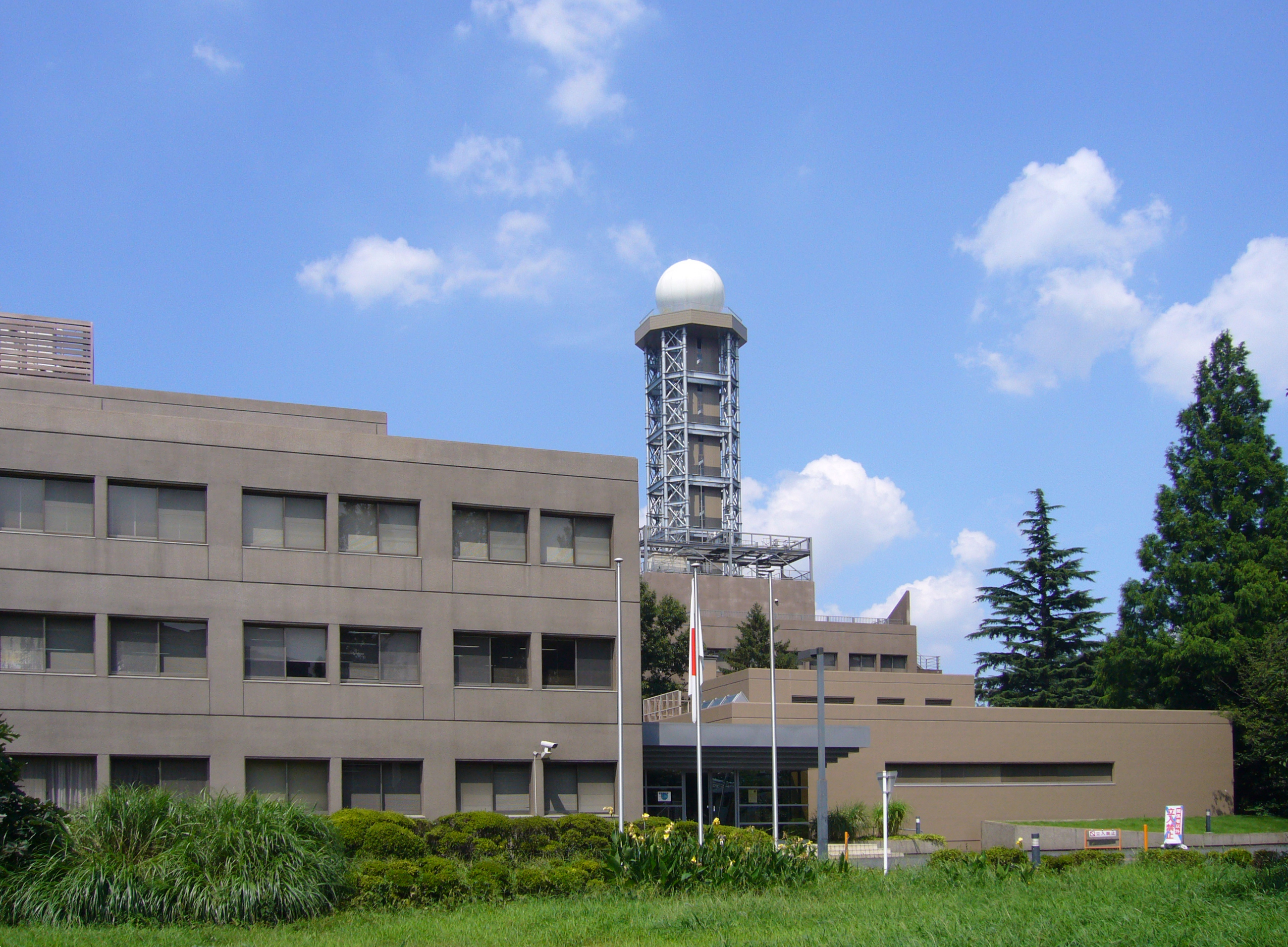 Meteorological College (l) and Tokyo Radar (r) in Kashiwa, Chiba, Japan千葉県柏市にある気象大学校（左）と東京レーダー（右）。